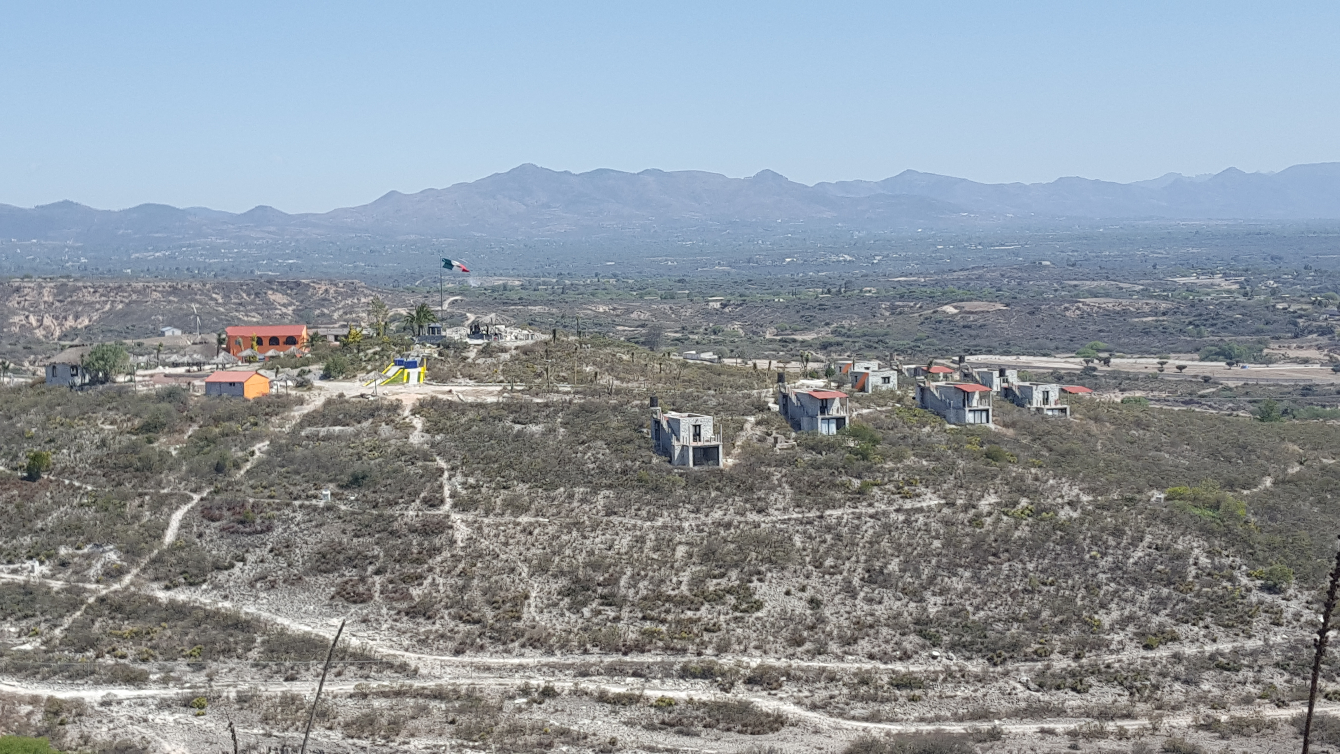 Lansdcape view of the Xoxafi natural park, in the municipality of Santiago de Anaya, Hidalgo, Mexico.